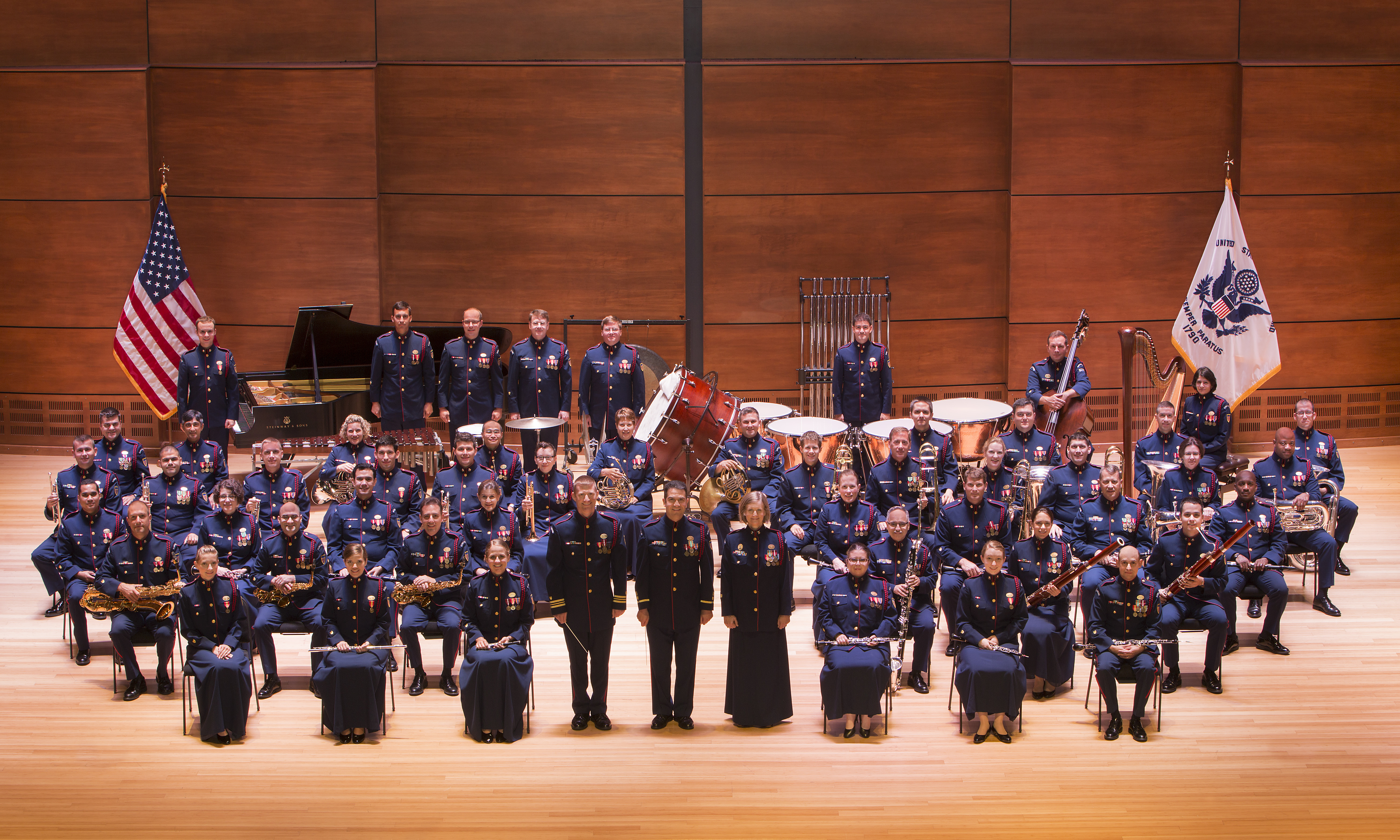 A group photo of the full United States Coast Guard Band in ceremonial uniform